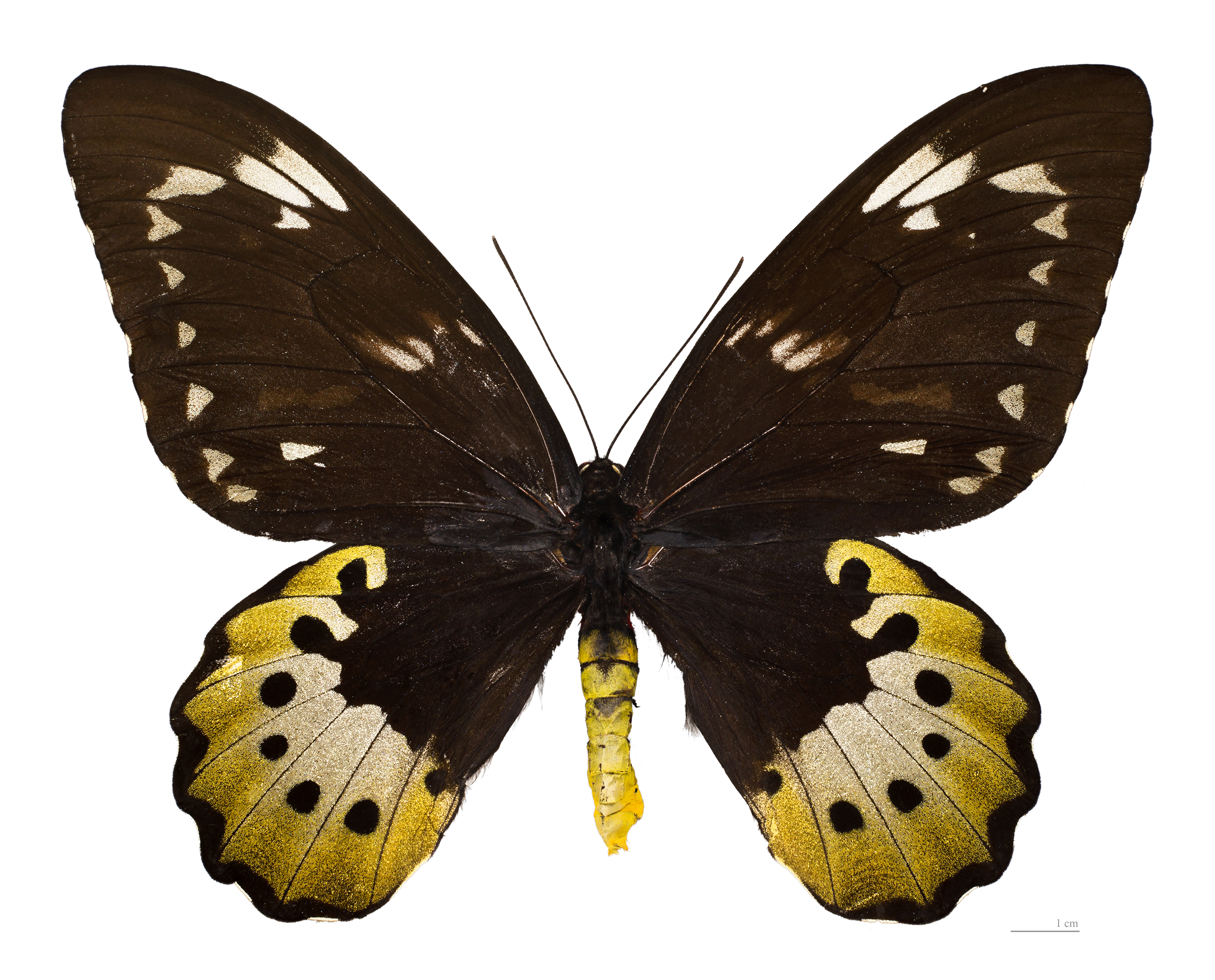 Ornithoptera goliath samson ♀ - Dorsal side Arfak Mountains, Province of West Papua, New Guinea, Indonesia.